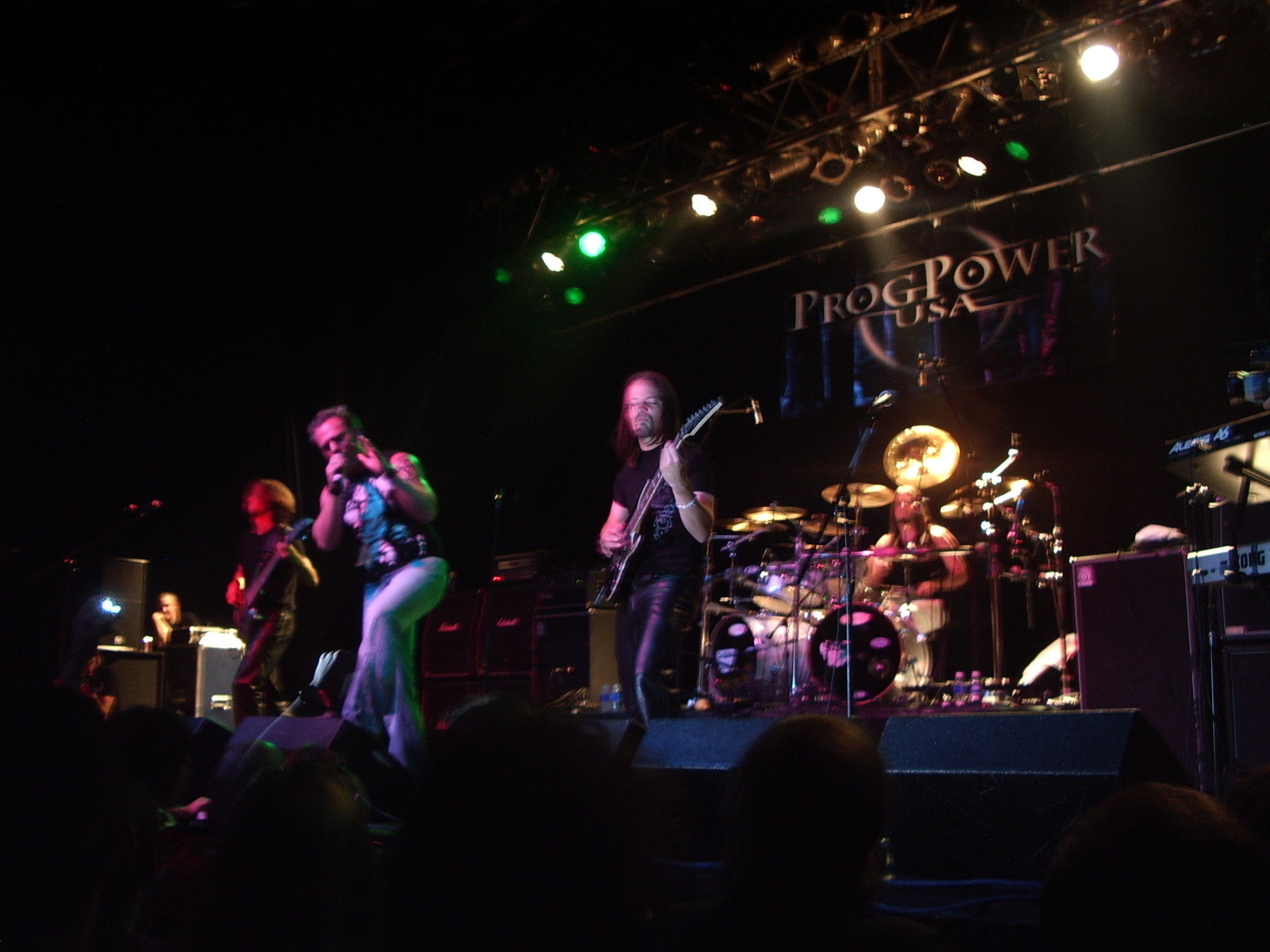 Norwegian progressiv metal band Circus Maximus at ProgPower USA festival in 2005